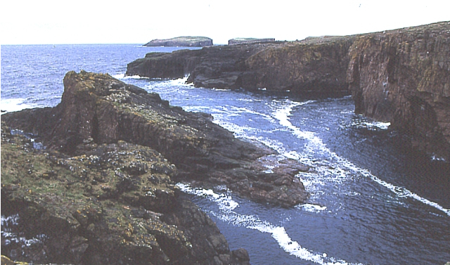 Galti Stacks, Papa Stour, Shetland, Scotland. Fogla Skerry in the background.